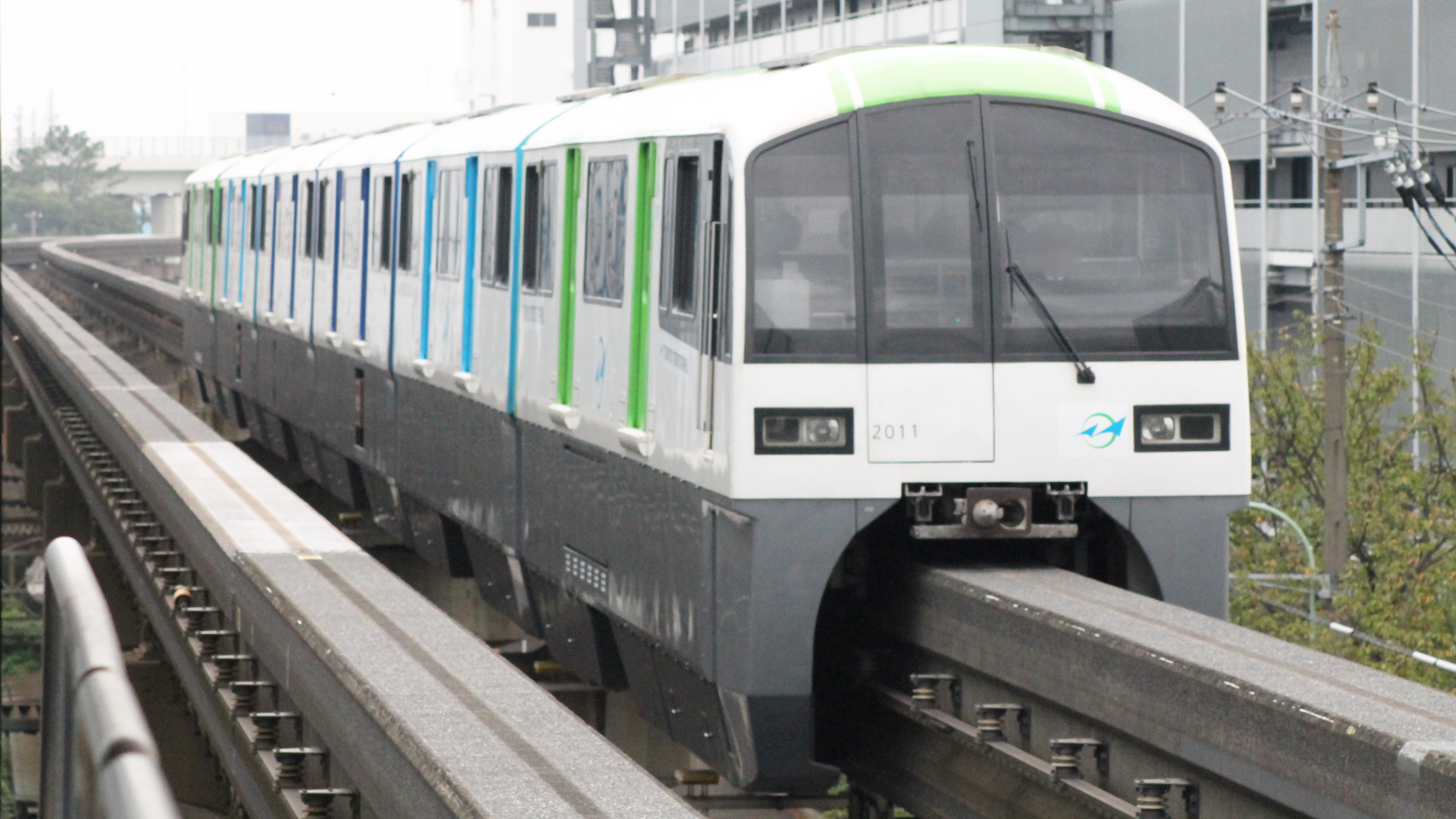 Tokyo Monorail 2000 series 6-car EMU set 2011(the train's number on this pic is 2011) entering Ryūtsū Center Station on the Tokyo Monorail in Ōta city, Tokyo, Japan